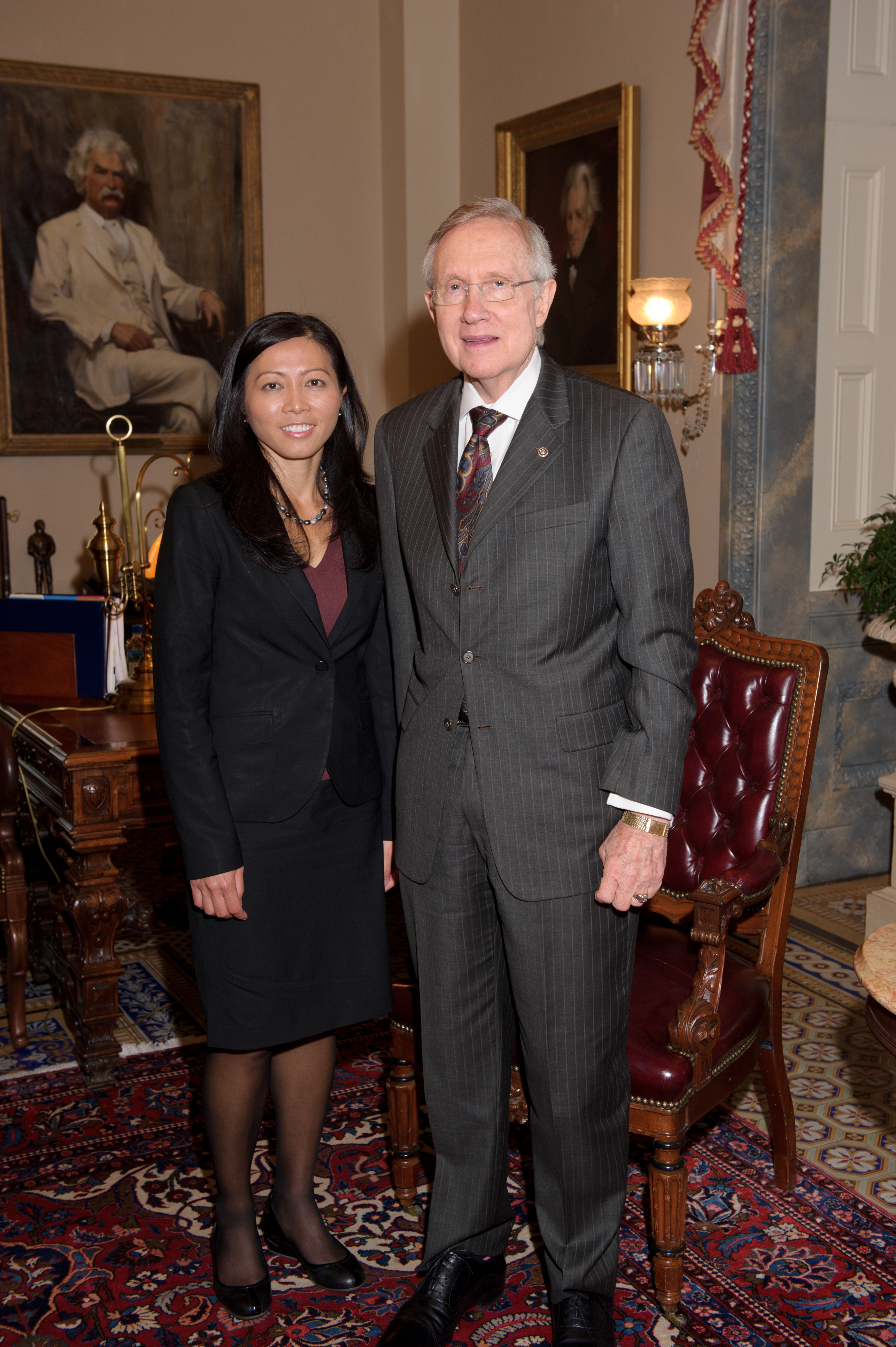 Senator Harry Reid introducing District Judge nominee Miranda Du.